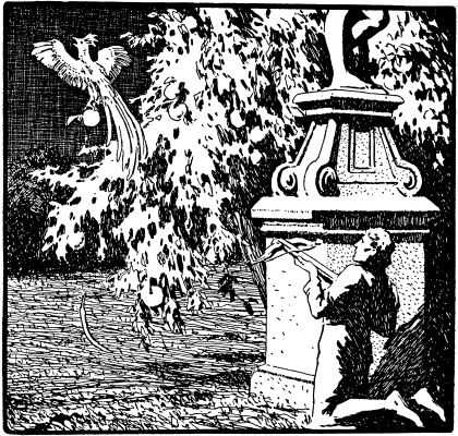 Illustration by Otto Ubbelohde to the fairy tale The Golden Bird